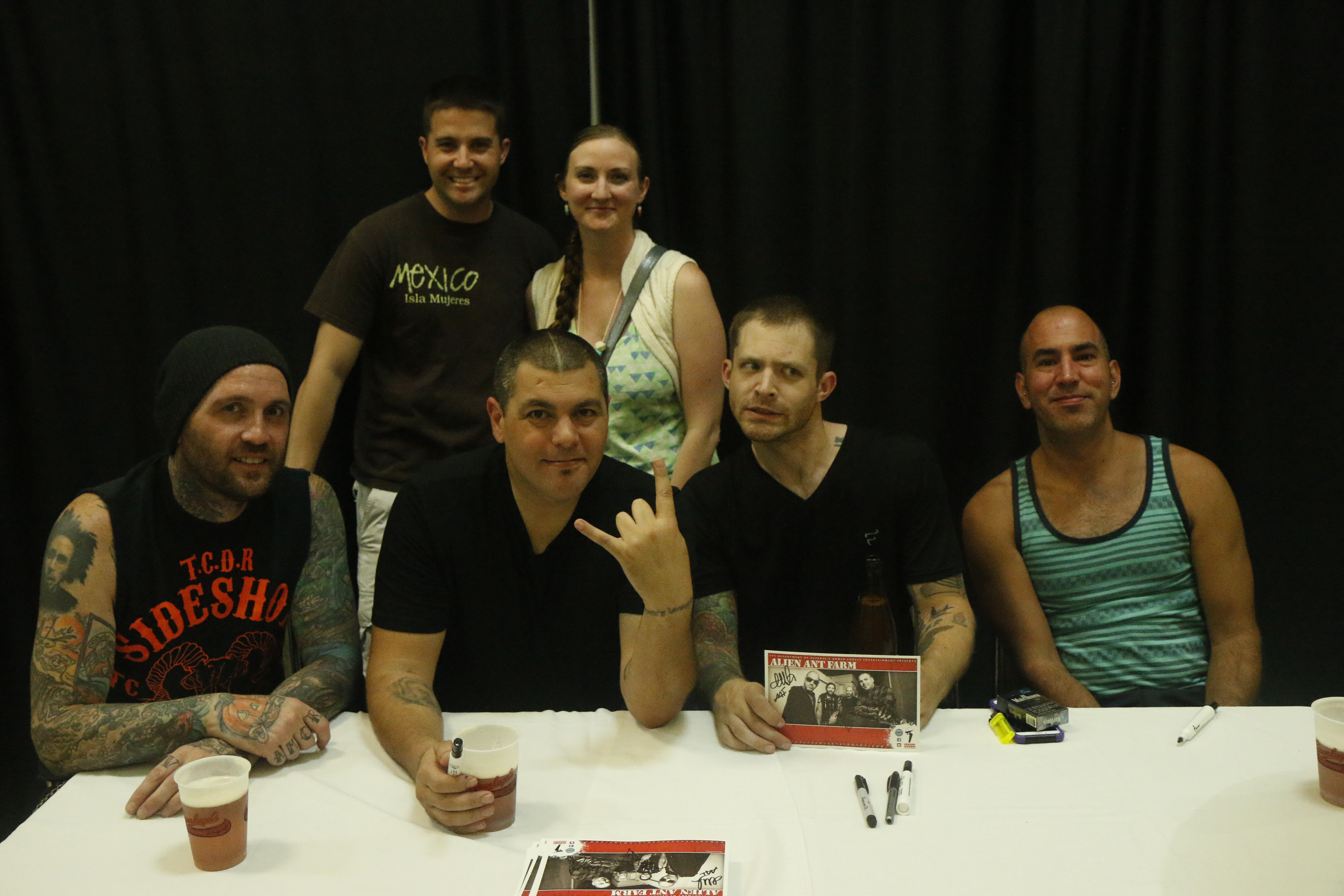 Click here to learn more about Camp Humphreys - U.S. Army photos by Terese Toennies